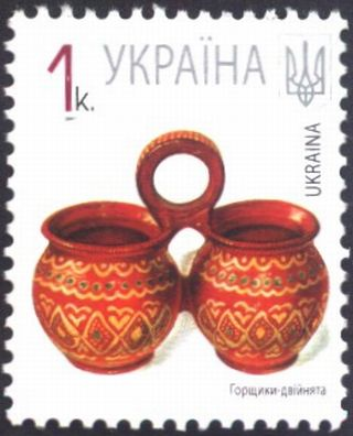 Stamp of Ukraine